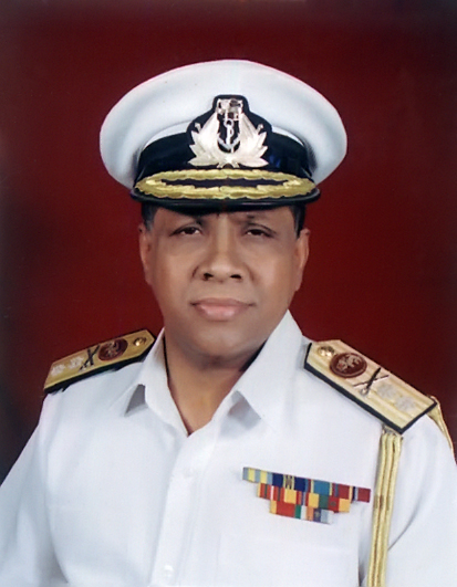 Rear Admiral Sarath Rathnakeerthi